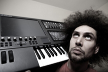 Sidney Miller in 2009 OpenLabs Miko LXD ?